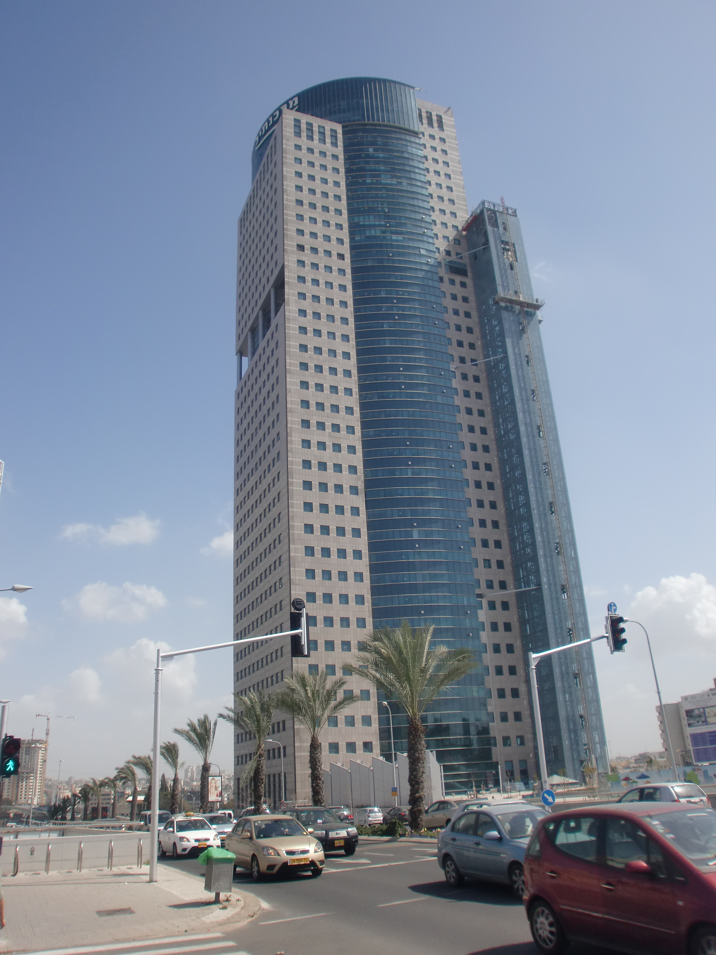 Buildings of Tel AvivGàidhlig: Edificios de Tel Aviv